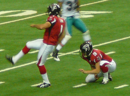 Jason Elam and Michael Koenen with the Atlanta Falcons.